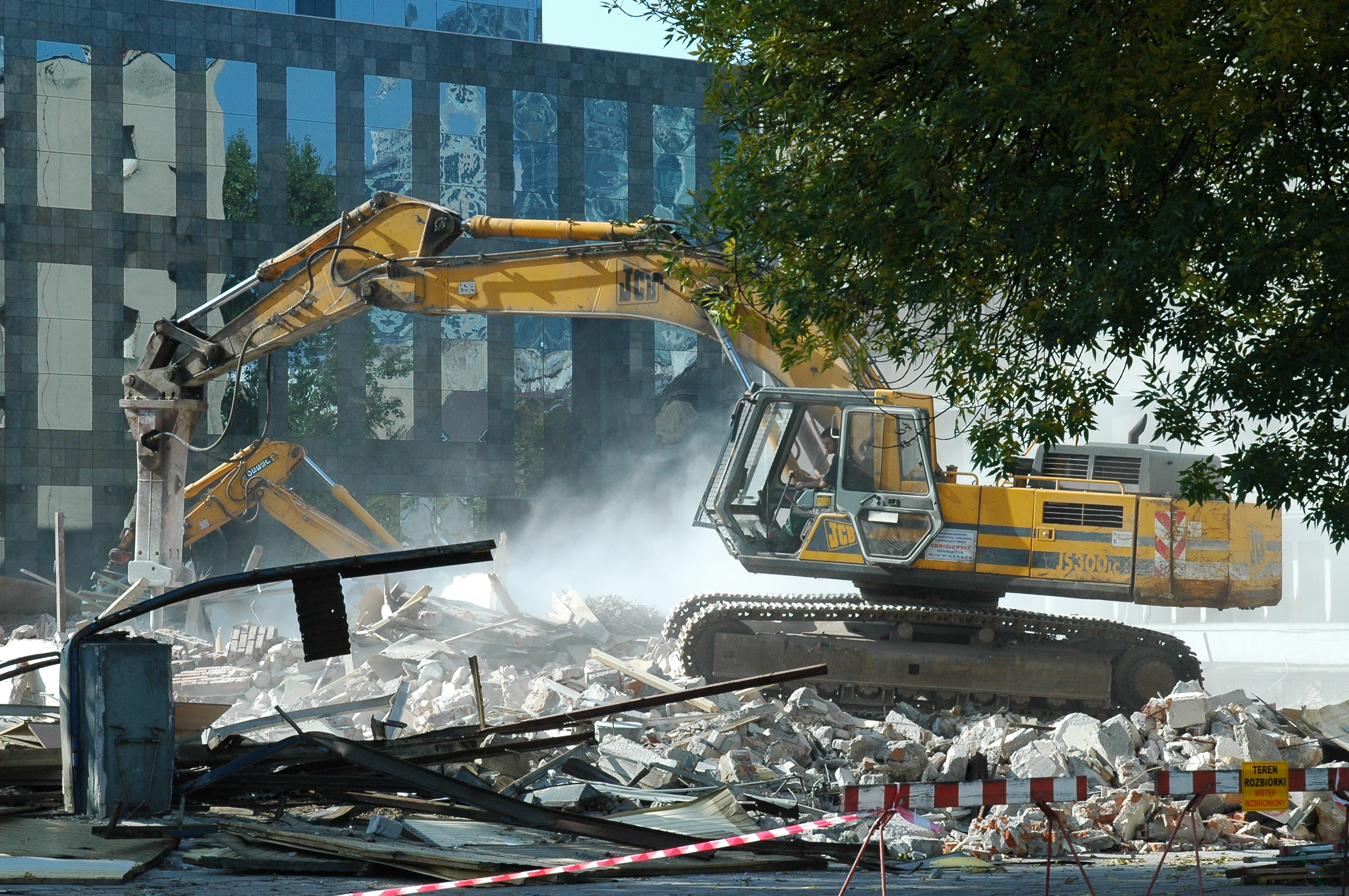 Pics made on a summer day in Warsaw, Poland; Excavator demolishing the remnants of the pre-war Postal Train Station (Dworzec Pocztowy) at Jerozolimskie Avenue.